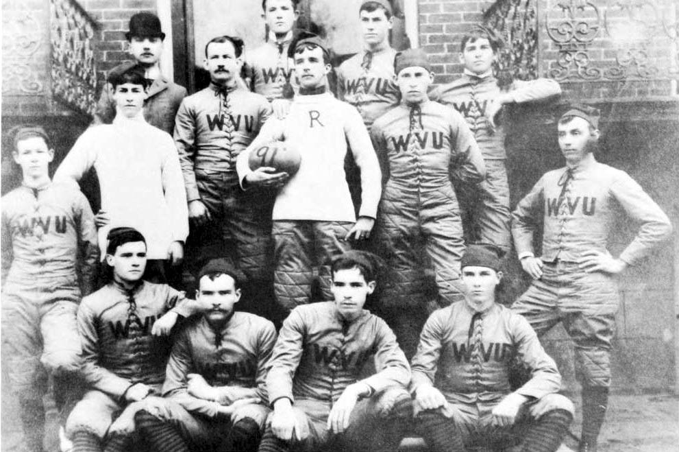 The first West Virginia football team, photographed in 1891.